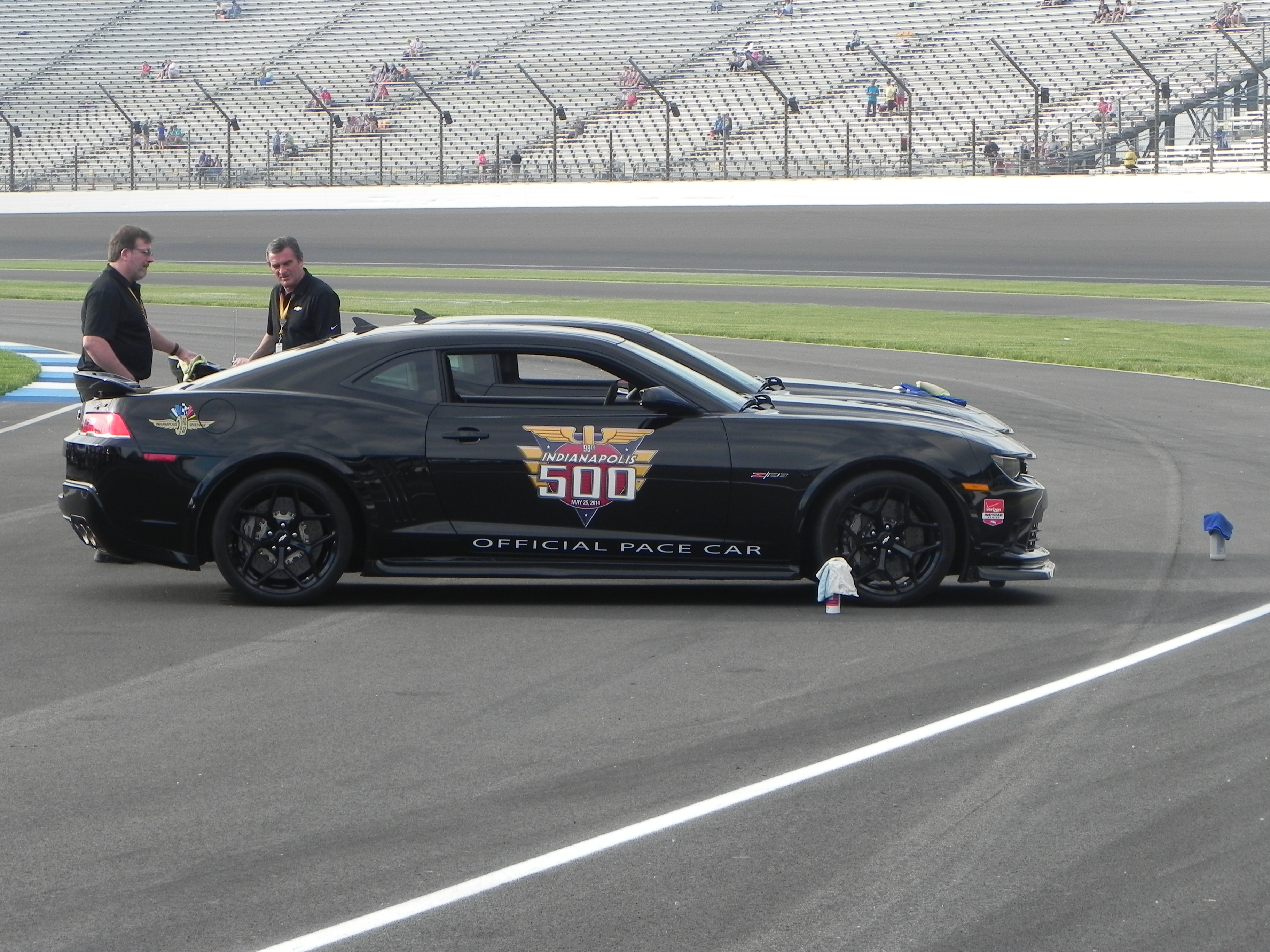 Pace Car for the 2014 Indianapolis 500